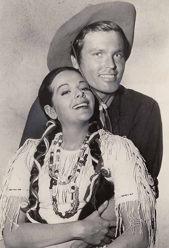 Ty Hardin & Yvette Dugay in the TV series Bronco, episode School for Cowards - publicity still (cropped)